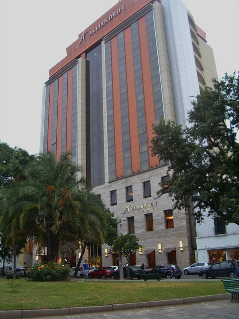 Hotel Alejandro I, is the tallest building in the city of Salta: 70 m.